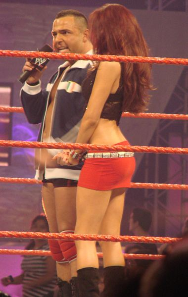 Santino Marella and Maria at WWE Raw. Bradley Center, Milwaukee, Wisconsin, September 24en:2007. Taken by me.